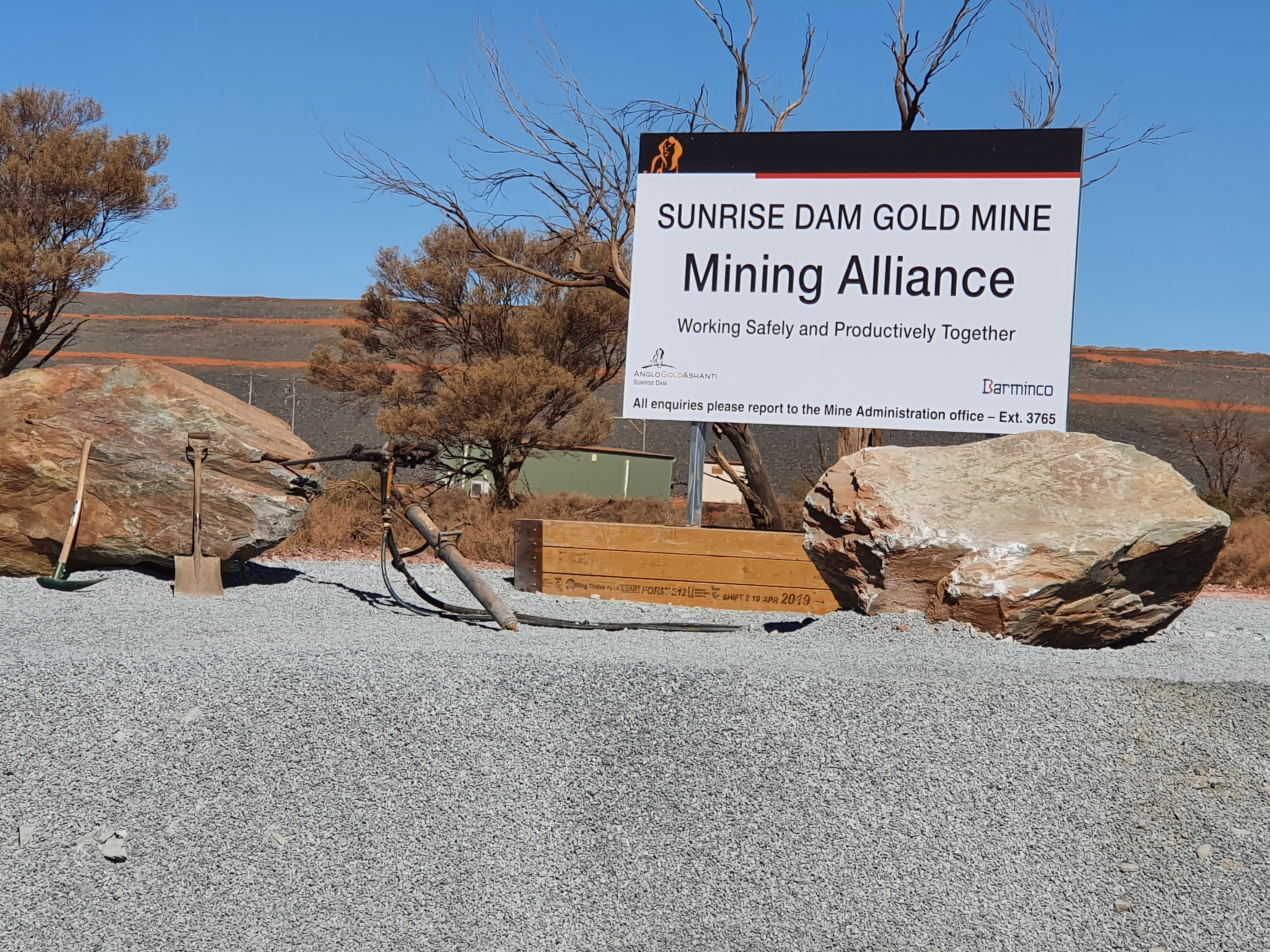 Sunrise Dam Mining Alliance sign